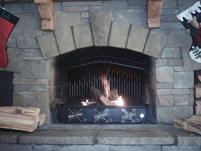 This fireplace blower arched to match the hearth, has high surface area dense tube packing to maximize its heat exchanger. The solid wall of tubes in the back act like a fire back, the staggering of the tubes at the top allow the upward draft of smoke.